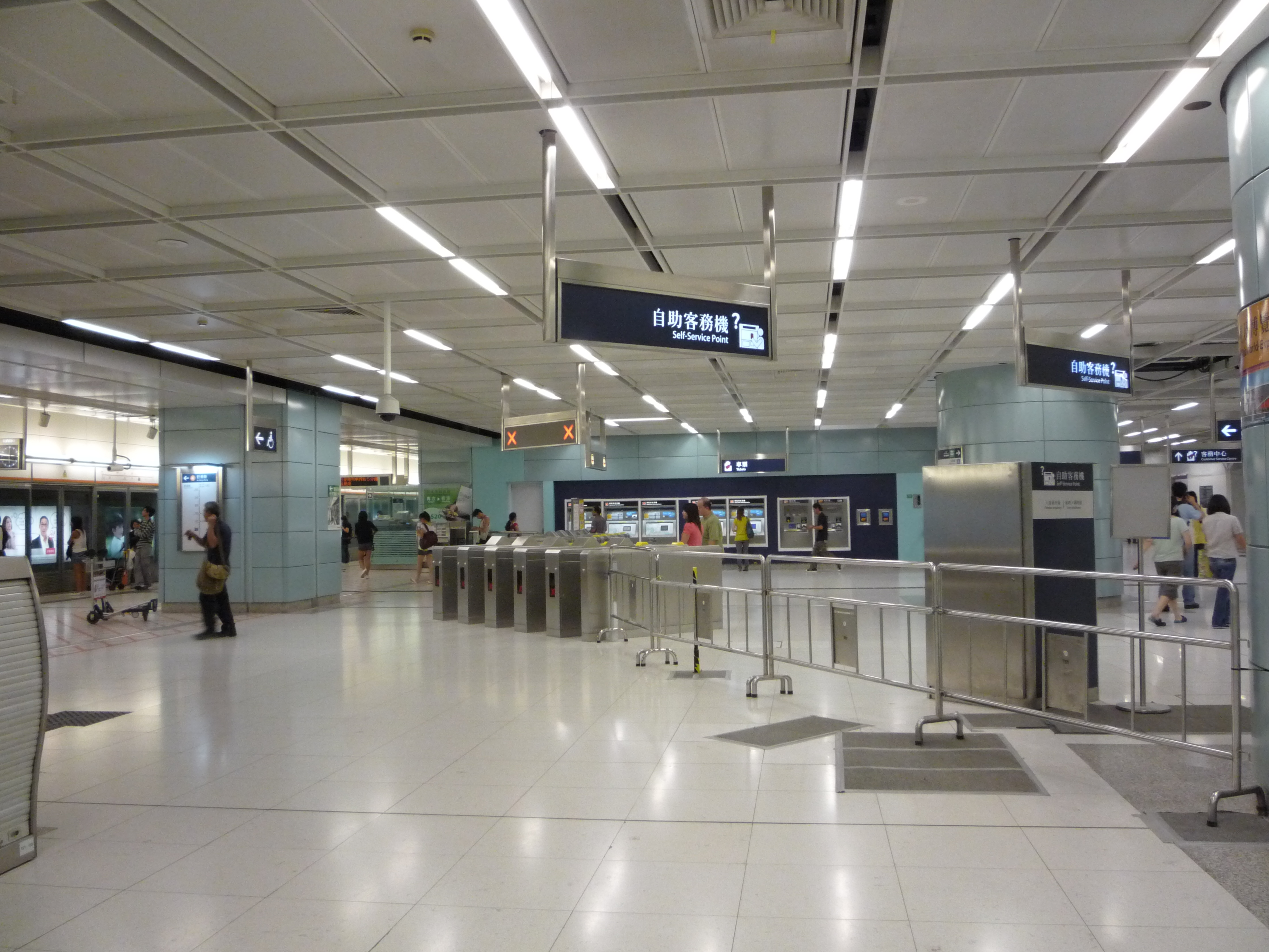 The gate on MTR Tsing Yi Station platform No.4